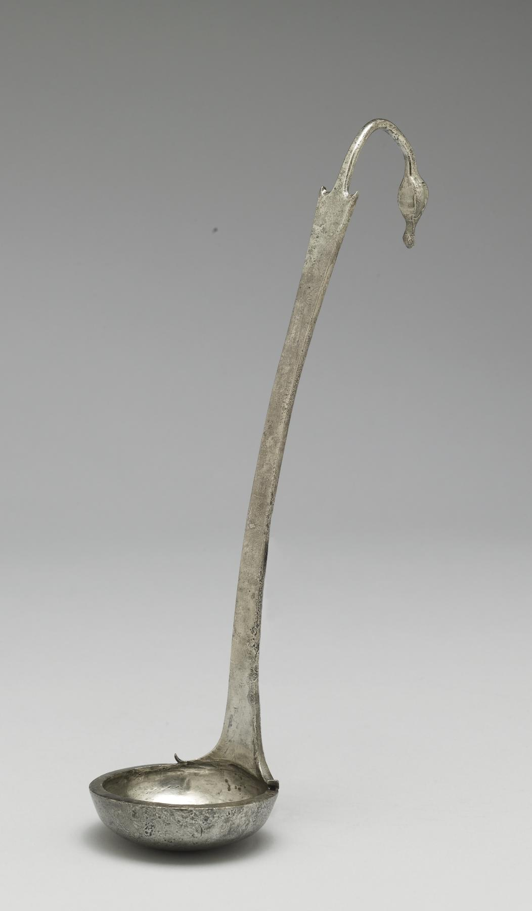 Ladles in the Classical and Hellenistic periods had handles that rose nearly vertically, as they were used for dipping into deep wine containers, such as "kraters." Ladles were often paired with strainers, and this example's long, strap-like handle ends in the bent neck of a swan, matching the handles of the strainer, with which it was found.